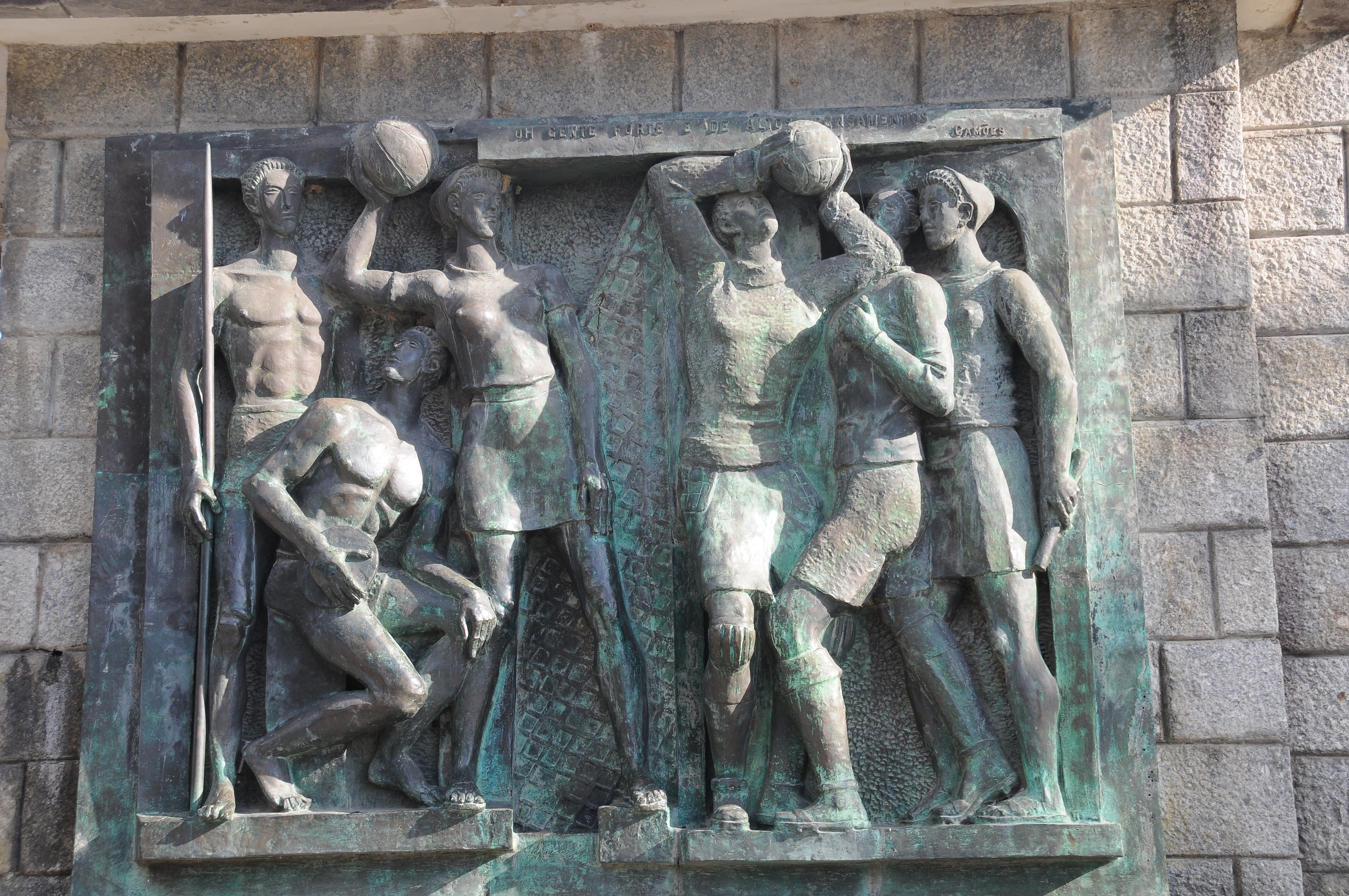 Main entrance of Estádio 1.º de Maio in Braga, Portugal.